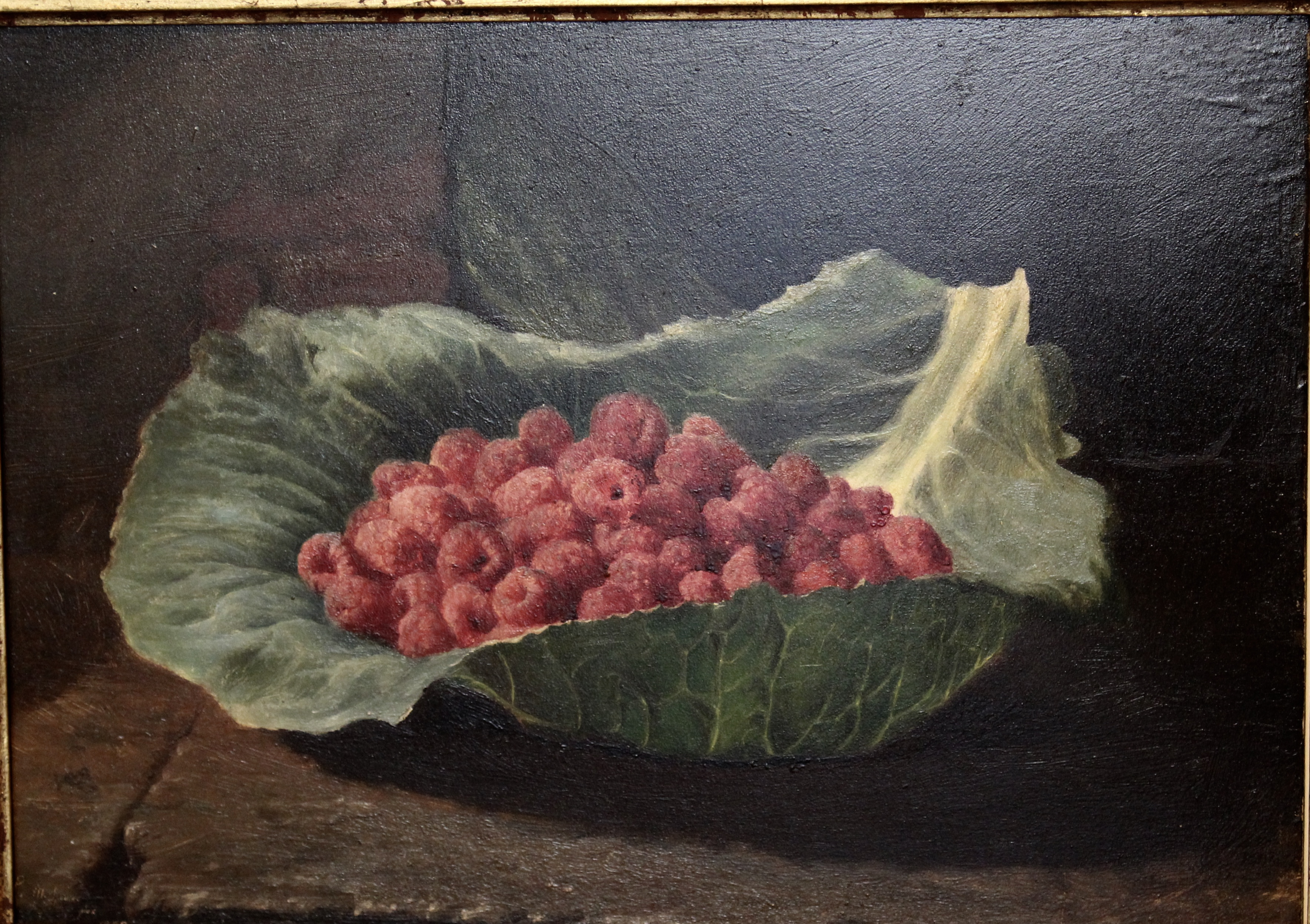 oil on panel painting by Lilly Martin Spencer. Photo taken in March 2019 from Widener University Alfred O. Deshong Collection